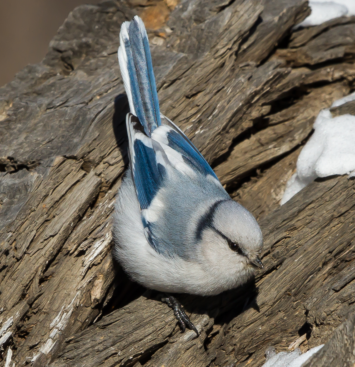 Azure Tit Cyanistes cyanus, Songino, western Mongolia